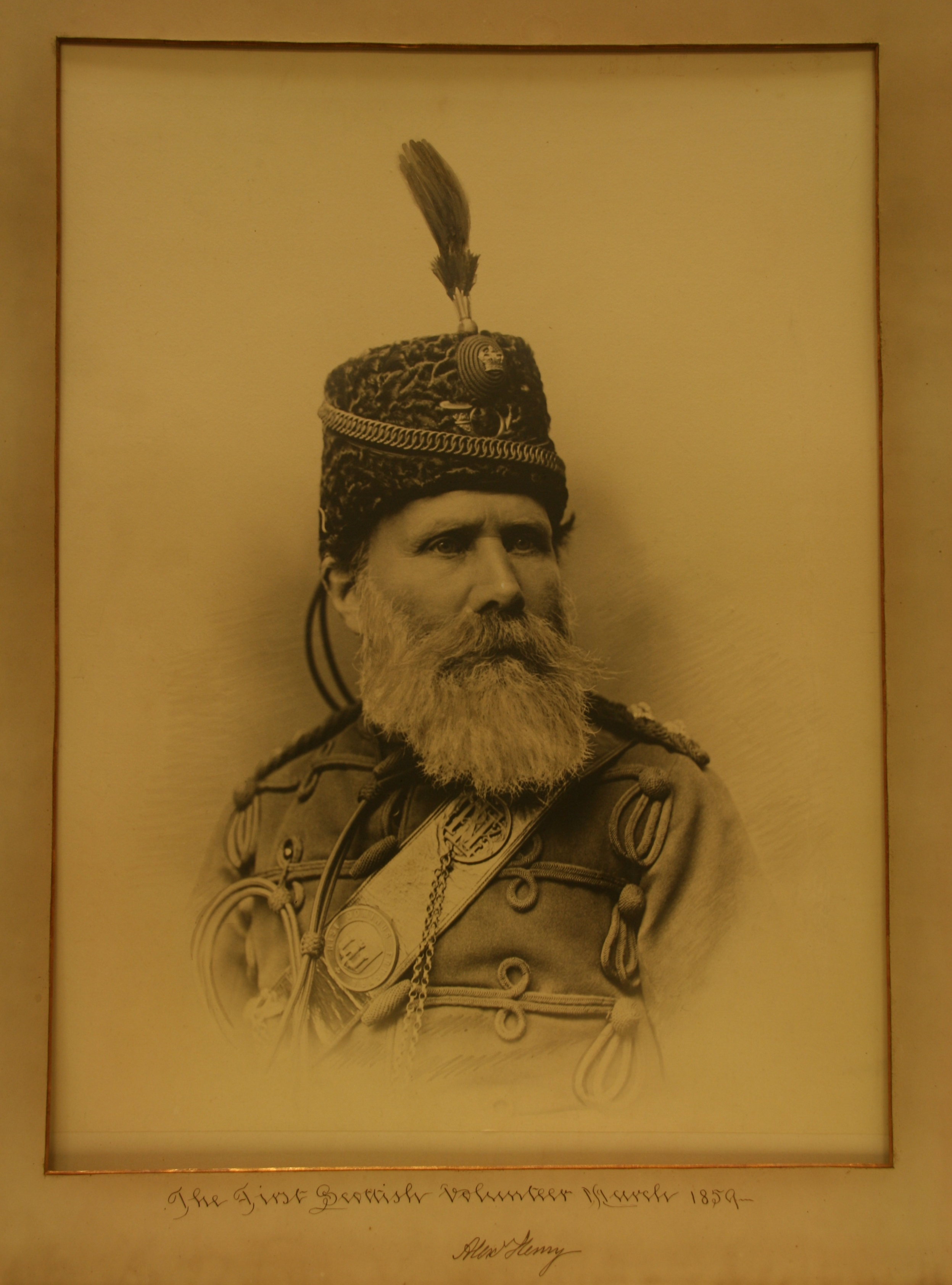 Photo held by The City of Edinburgh Council Museums & Galleries; Museum of Edinburgh’, donated by Charles Henry Brown